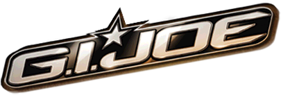 Logo of the G.I. Joe toy and media franchise.